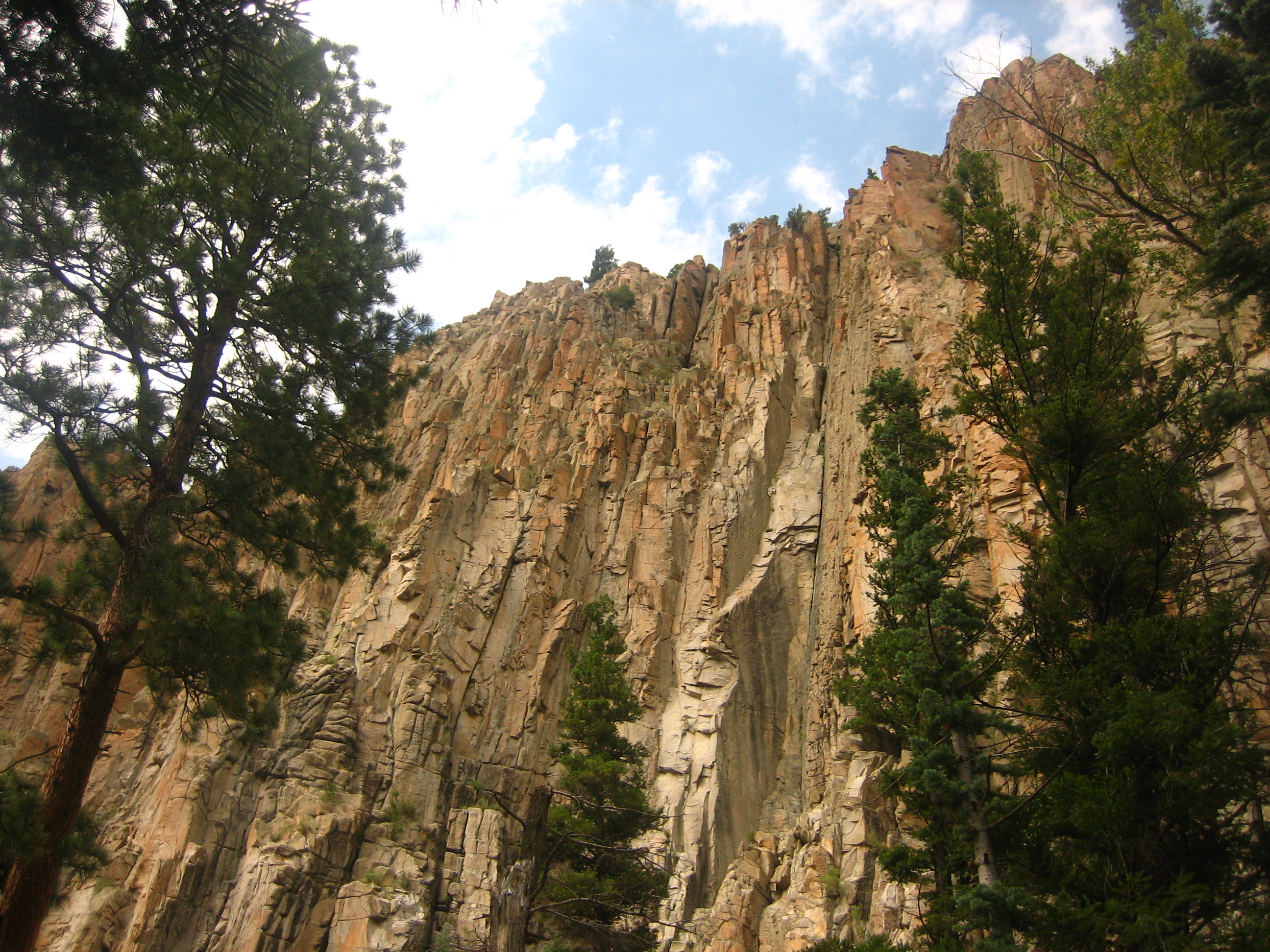 Palisades Sill in New Mexico, USA. This sill is composed of porphyritic dacite of Oligocene age.